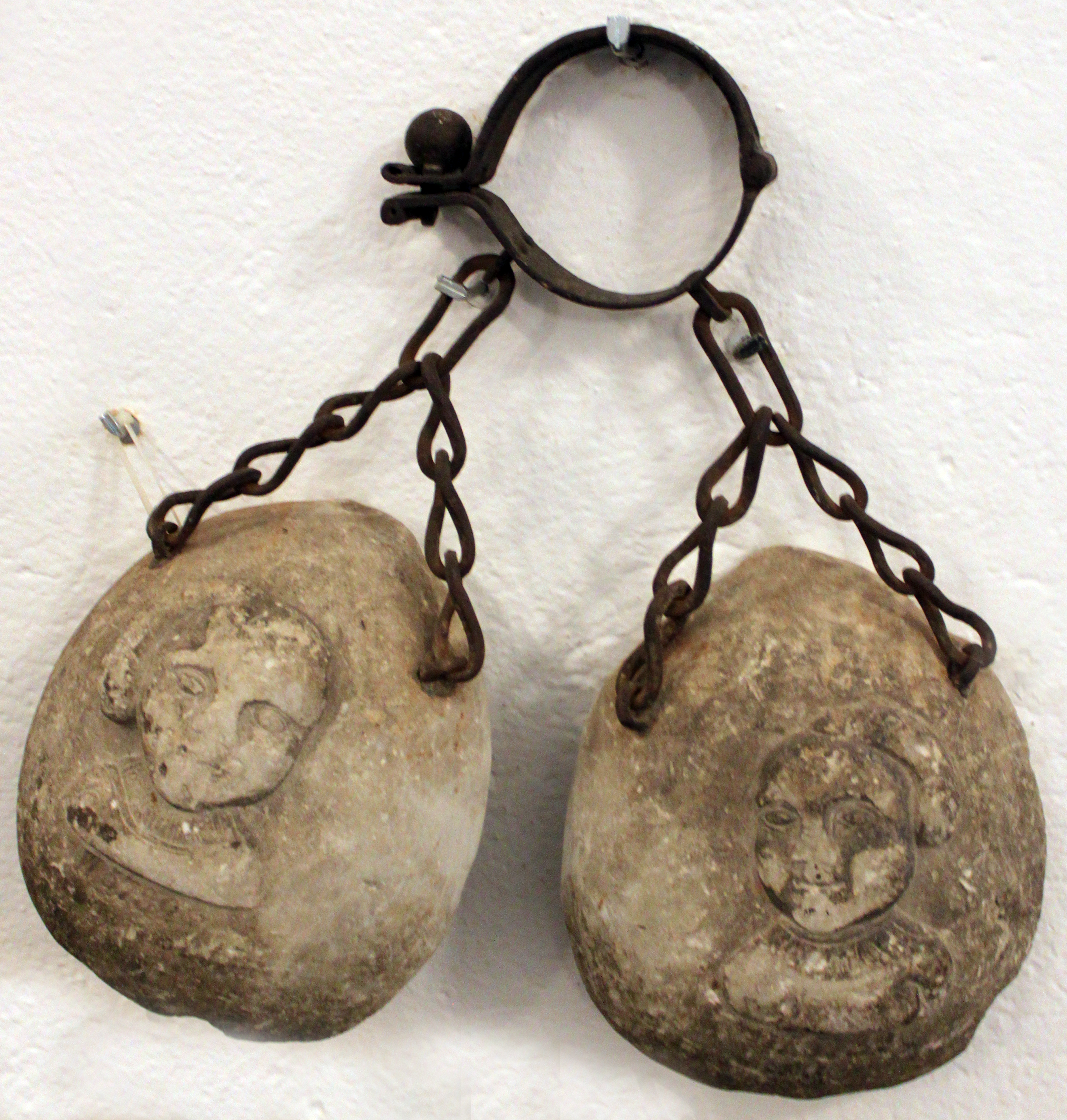 Shame stones from Dahme, Mark Brandenburg, 16th century; Märkisches Museum Berlin